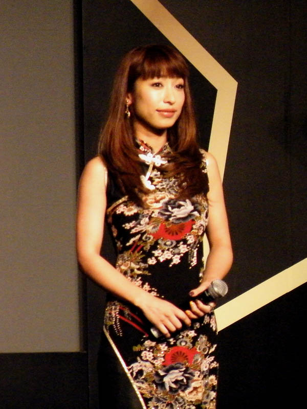 Mika Kayama, at ASIA ADULT EXPO 2010.